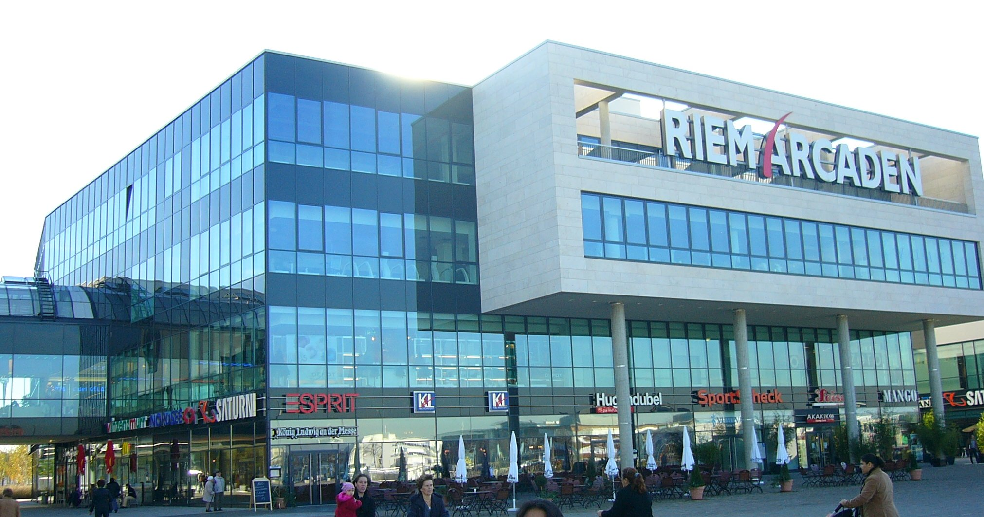 RiemArcaden from outside (right building), Messestadt Riem, München, Germany.